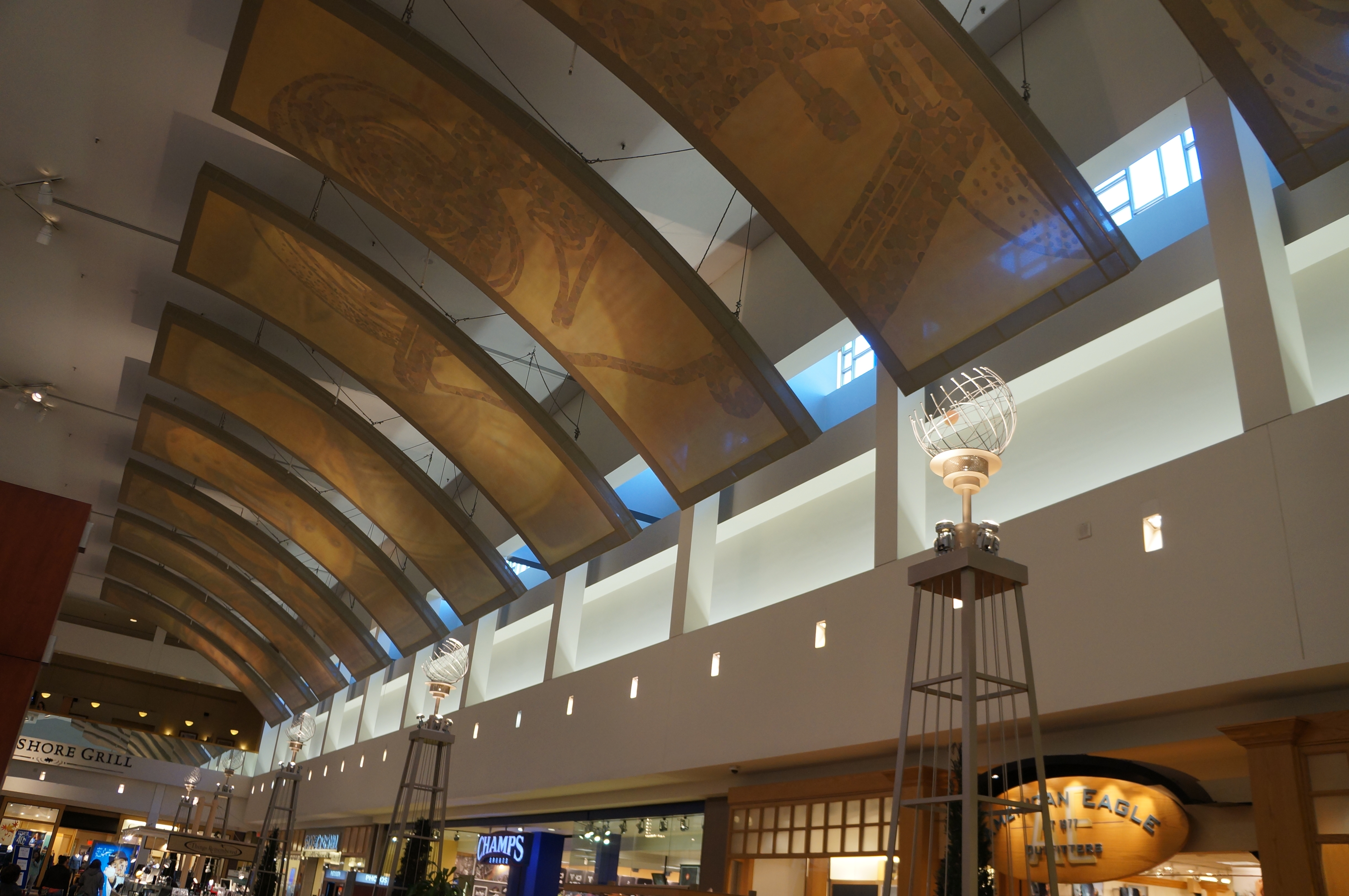 The windows of the East lobby of the Westland Shopping Center.